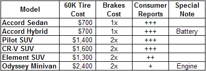 Part of a series of images to illustrate an article on the Analytic Hierarchy Process